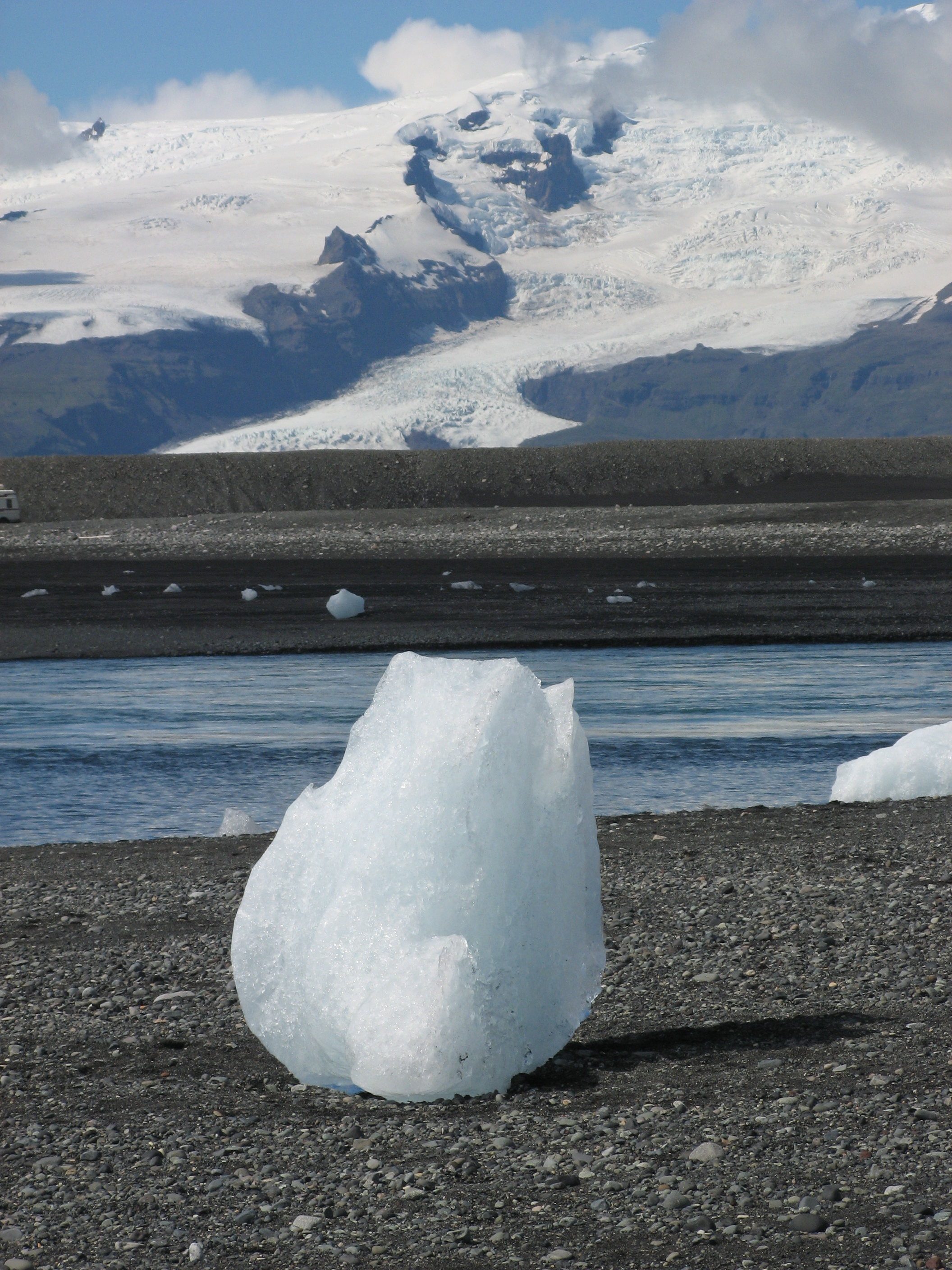 An iceberg near Jökulsárlón with Öræfajökull and its outlet glacier Hrútárjökull in the background. Öræfajökull is the southernmost tip of Vatnajökull. The iceberg came from Vatnajökull, as well as the other icebergs in Jökulsárlón.